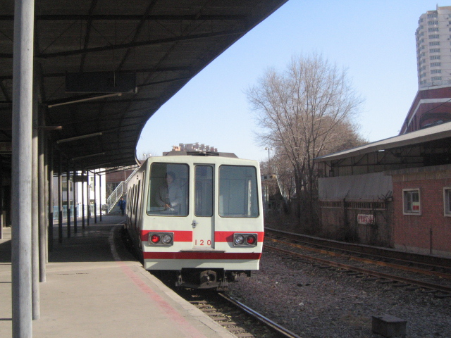 A BD2 train in old livery...at Gucheng depot. This fellow was painted grey circa 2007.